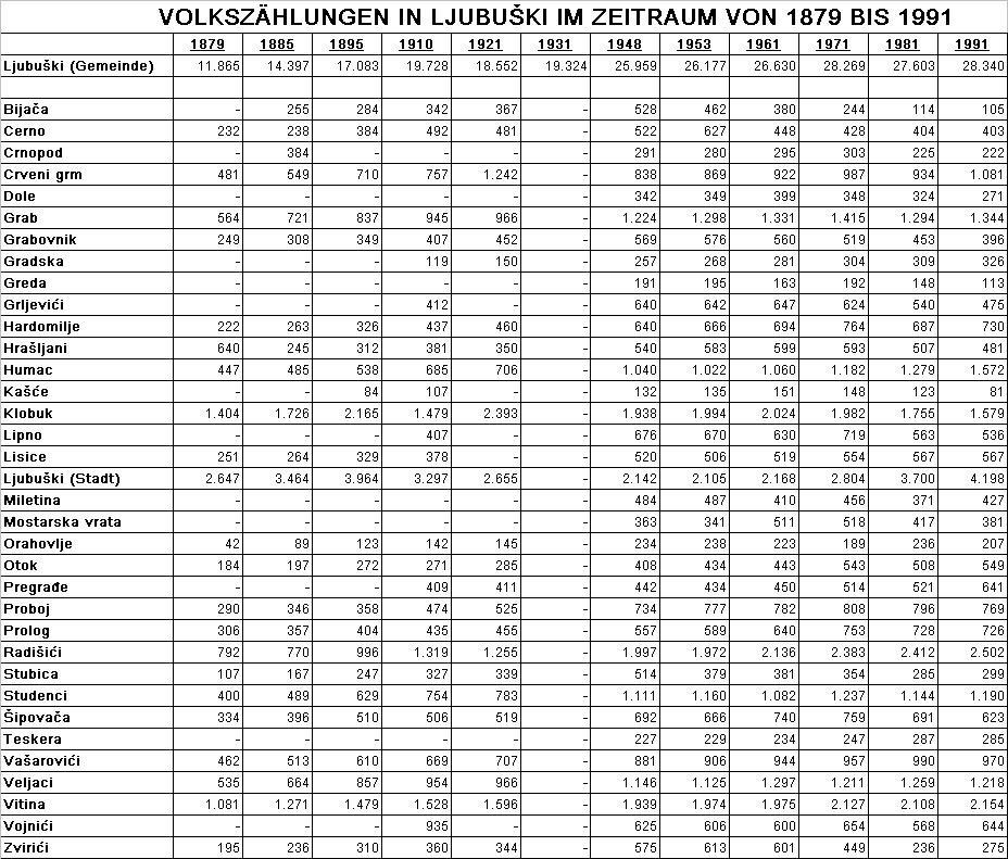 Results of census in Ljubuški from 1879 to 1991 (in German)